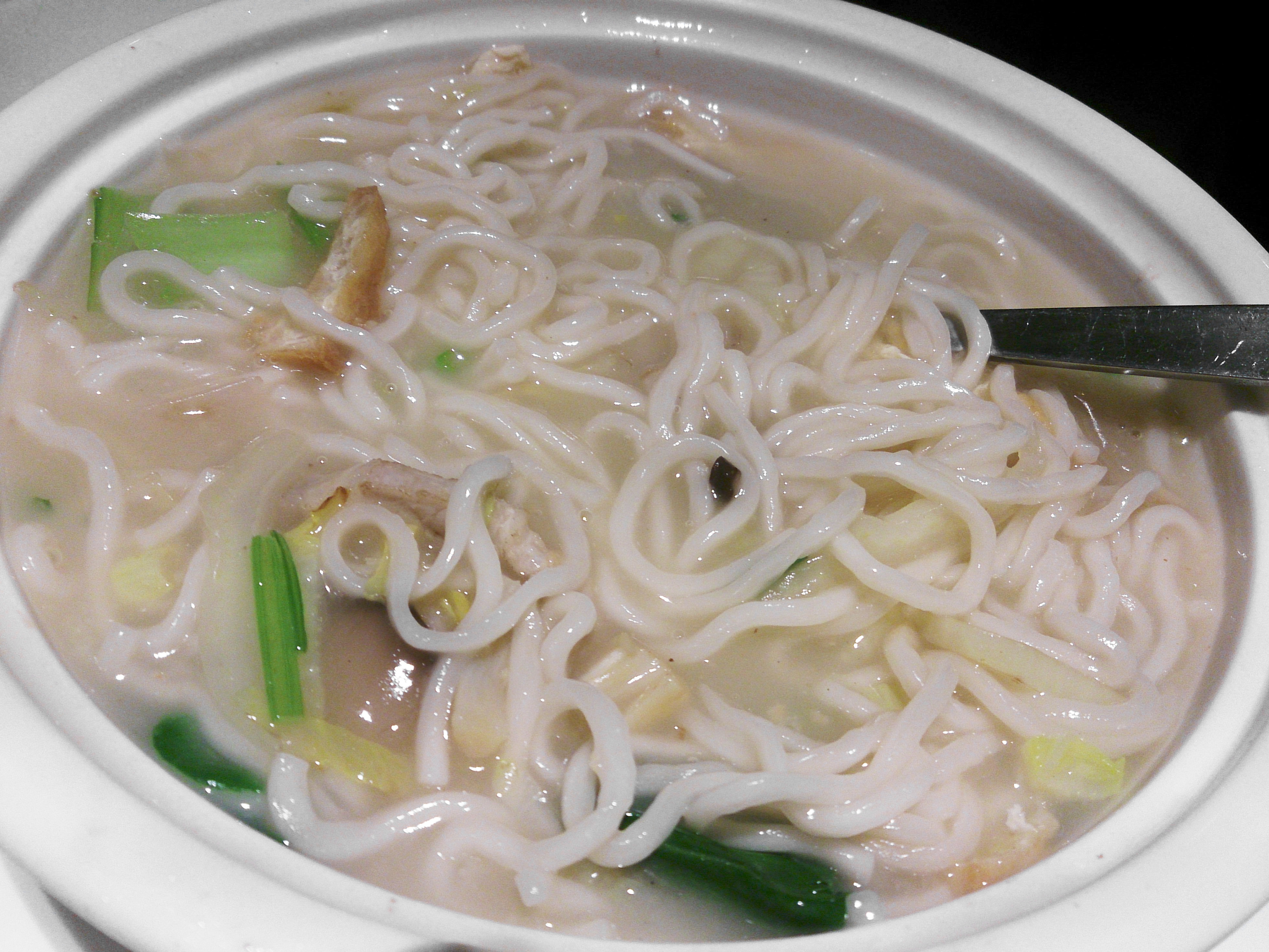 aka Heng Hwa lor mee.